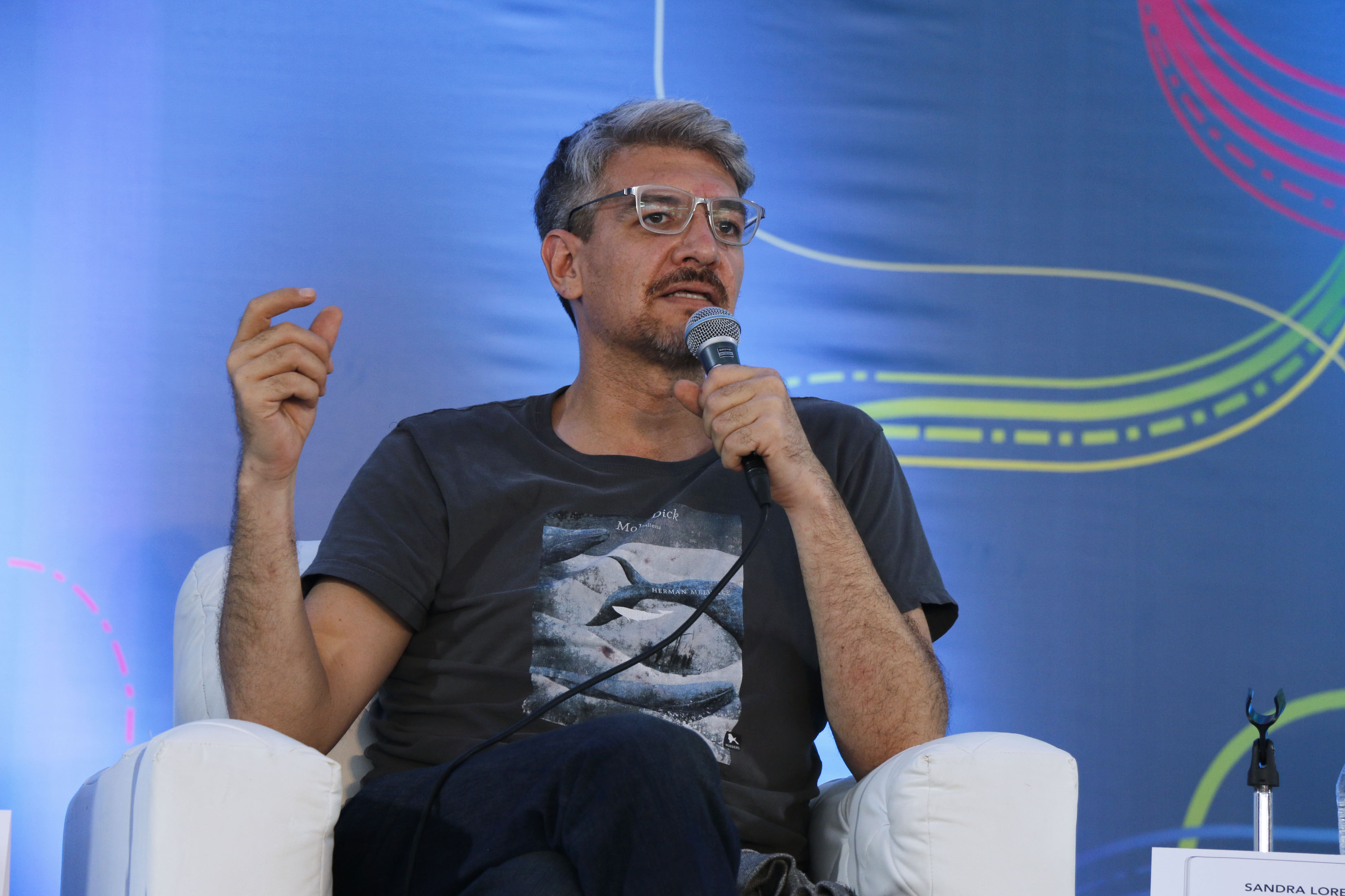 Mexican author Emiliano Monge at a talk in 2016